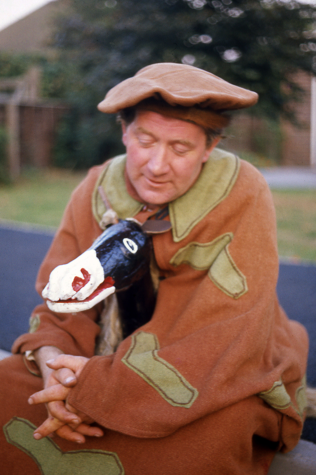 A scan from a print of a 35mm transparency which I took at the Abbots Bromley Horn Dance in Abbots Bromley, Staffordshire, England in the mid 1970s. It shows the original medieval hobby horse (sitting down to take a rest in the early evening after a full day's dancing). Soon after this, a new hobby horse was carved, with a more "realistic" head.